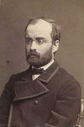 Carl Henrik Lange (1834-1900), Danish physician and psychologist